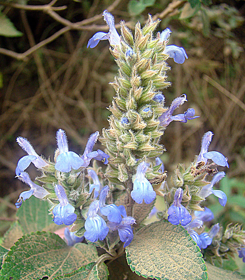 Native to southern Mexico and Guatemala, but widely planted and naturalized as the source of nutritious Chia seeds. Photo from a dusty roadside in Costa Rica..